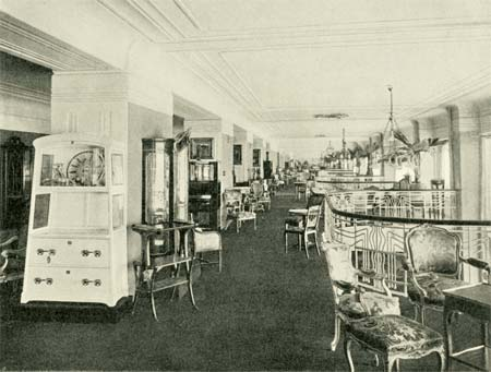 Gallery in entresol at the Portois & Fix building.